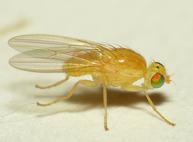 Gymnochiromyia flavella, location: The Netherlands - Rhenen - Blauwe Kamer - Gelderland